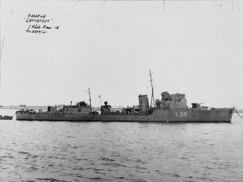 Photograph of British Hunt class destroyer HMS Cattistock.